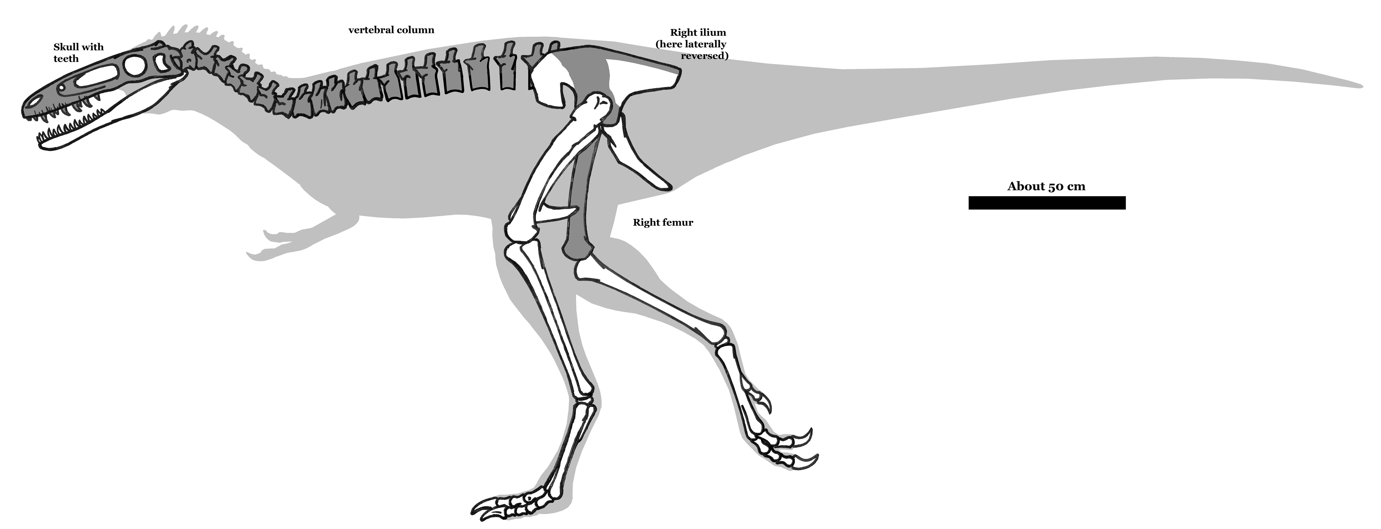 Fossil remains of Xiongguanlong baimoensis (Dinosauria, Theropoda, Coelurosauria, Tyrannosauroidea), based on the holotype FRDC-GS JB16-2-1.[1] References ↑ Makovicky P.J., Smith N.D. et.al., "A longirostrine tyrannosauroid from the Early Cretaceous of China", Proceedings of the Royal Society B 277(1679): sid. 183-190. [1] and [2]: Skeletal diagrams.